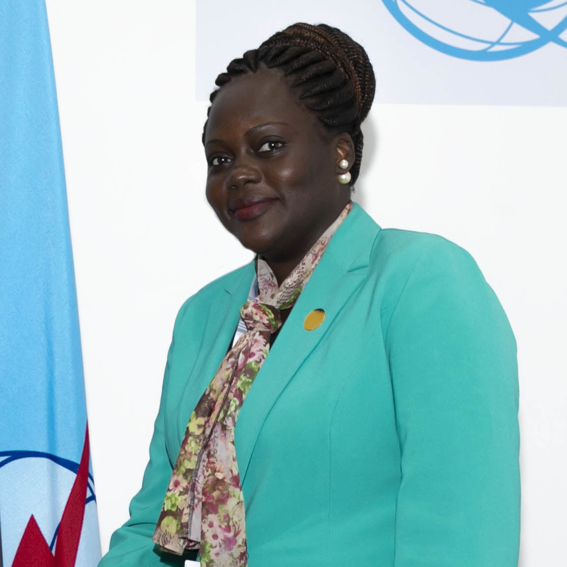 Mr. Houlin Zhao, ITU Secretary-General with H.E. Ms. Lily AKOL, Deputy Minister, Ministry of Information, Communication Technology and Postal Services, South Sudan at ITU PP-18 ©ITU/D. Woldu